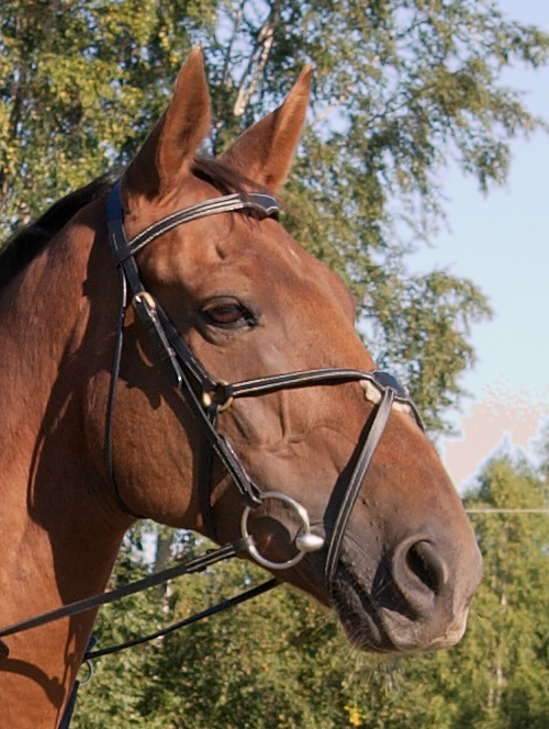 Grackle Bridle on Irish Hunter